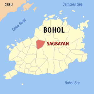 Map of Bohol showing the location of Sagbayan